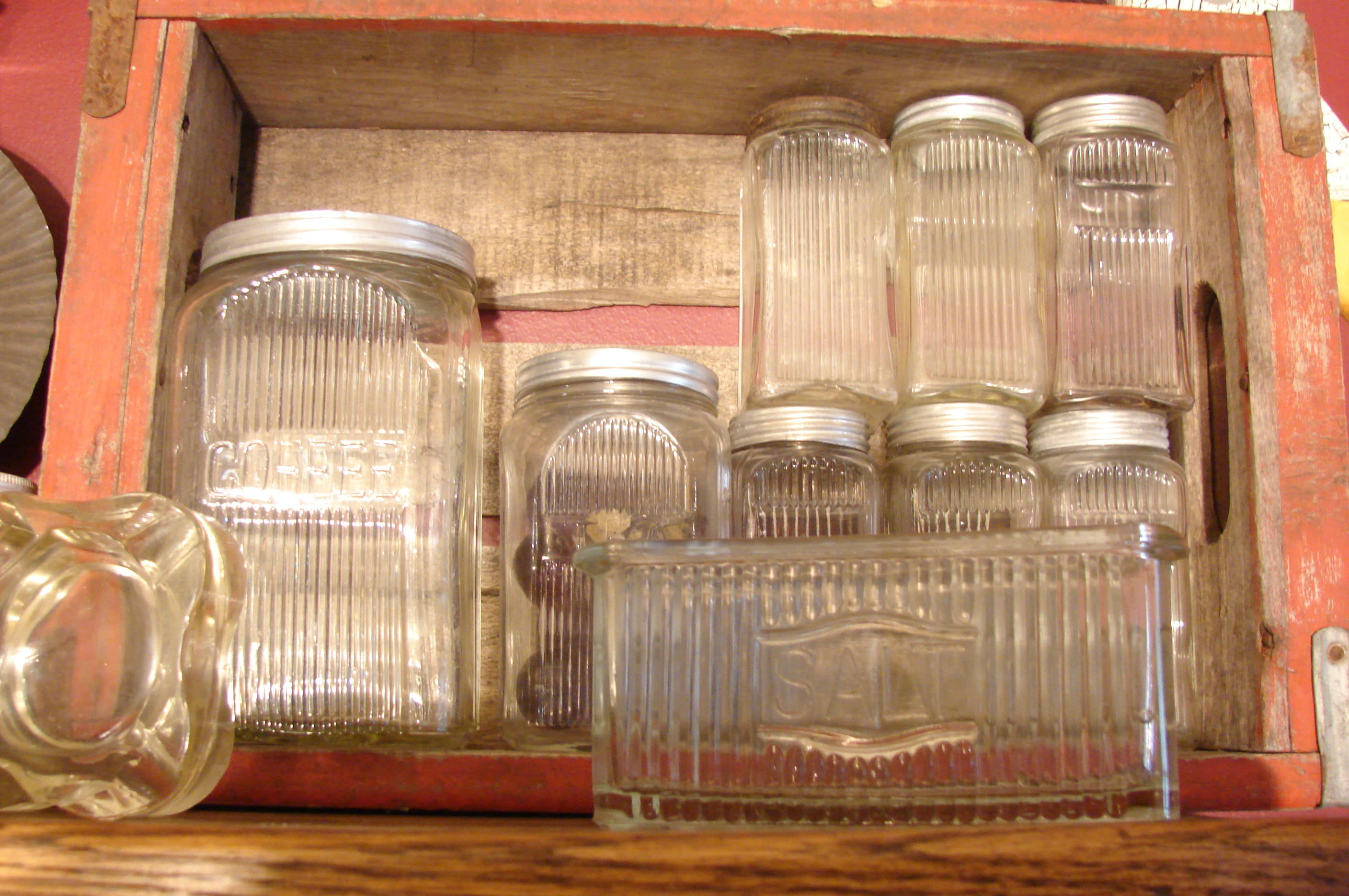 Glass canisters made by Sneath Glass Company for Hoosier Cabinets